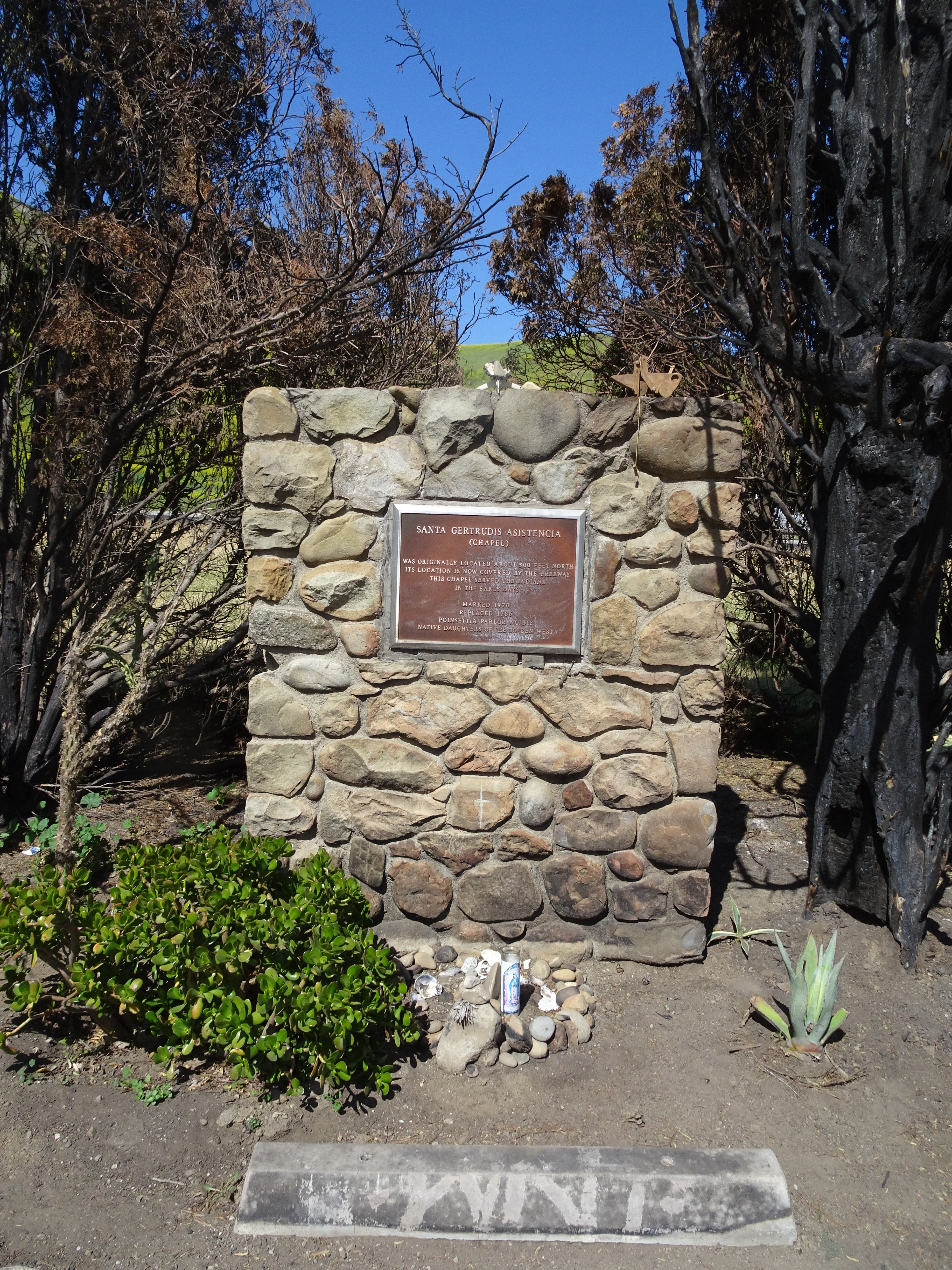 Santa Gertrudis Asistencia (Chapel) Monument. Located 0.3 miles north of the Ventura Avenue Water Purification Plant on the east side of the road, flanked by two cypress trees that appear to have burned in the Thomas Fire. Ventura County Historical Landmark No. 11.